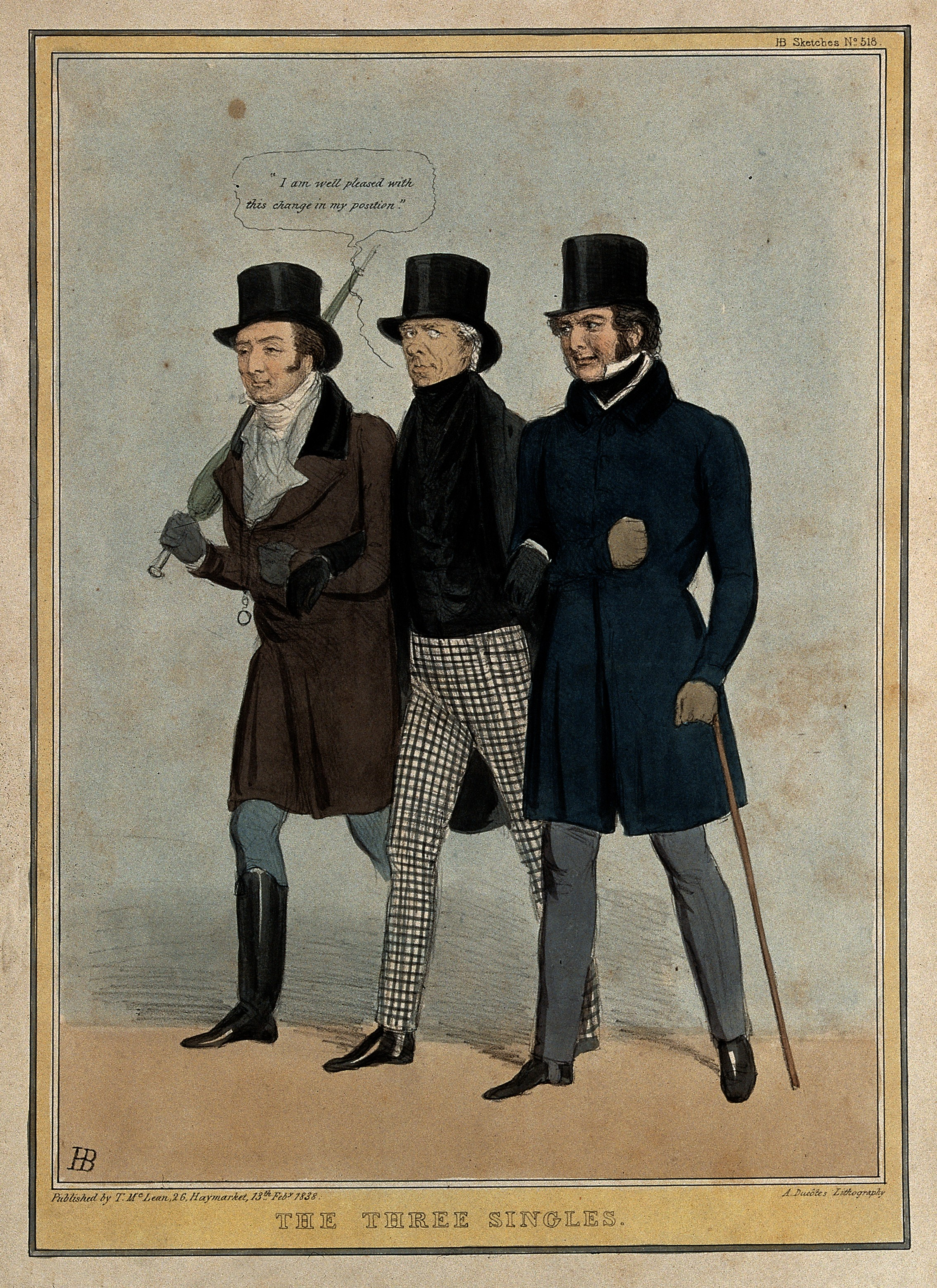 Lord Ellenborough, Lord Brougham and The Earl of Mansfield walk together arm in arm. Coloured lithograph by H.B. (John Doyle), 1838. Brougham strongly opposed the government measures relating to Canada and was alone in this position for a while. He was eventually supported by Mansfield and Ellenborough. The title refers to the farce of "Three and the Deuce" with the well known characters Pertinax, Peregrine and Percival Single. Iconographic Collections.